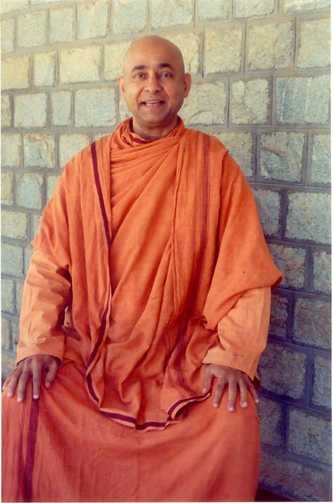 Photo of Swami Purushottamananda